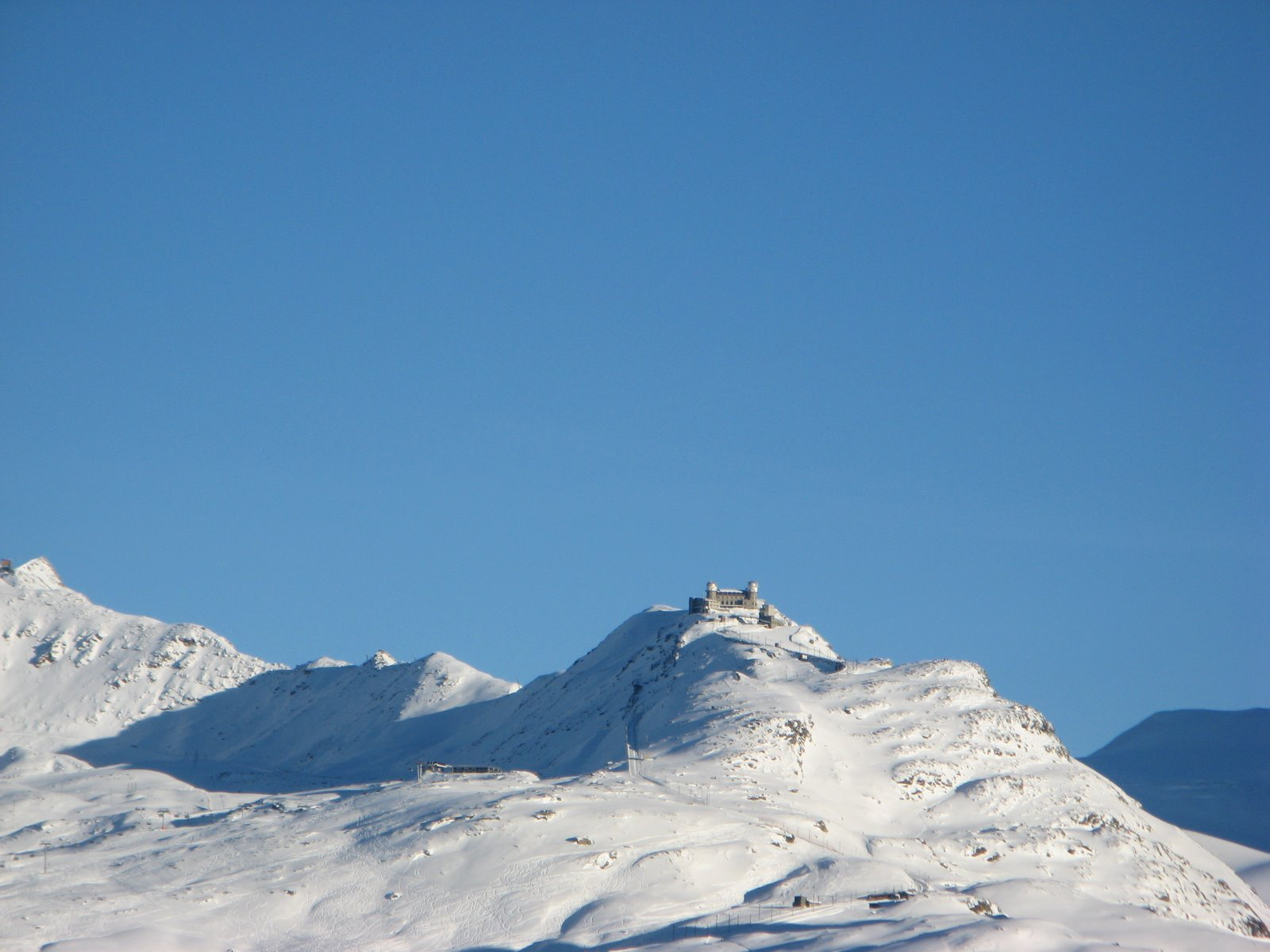 Gonergrat as viewed from Schwarzsee